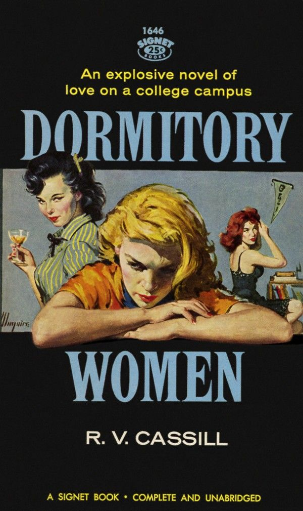 Cover of "Dormitory Women" by R. V. Cassill. Illustration by Robert Maguire.